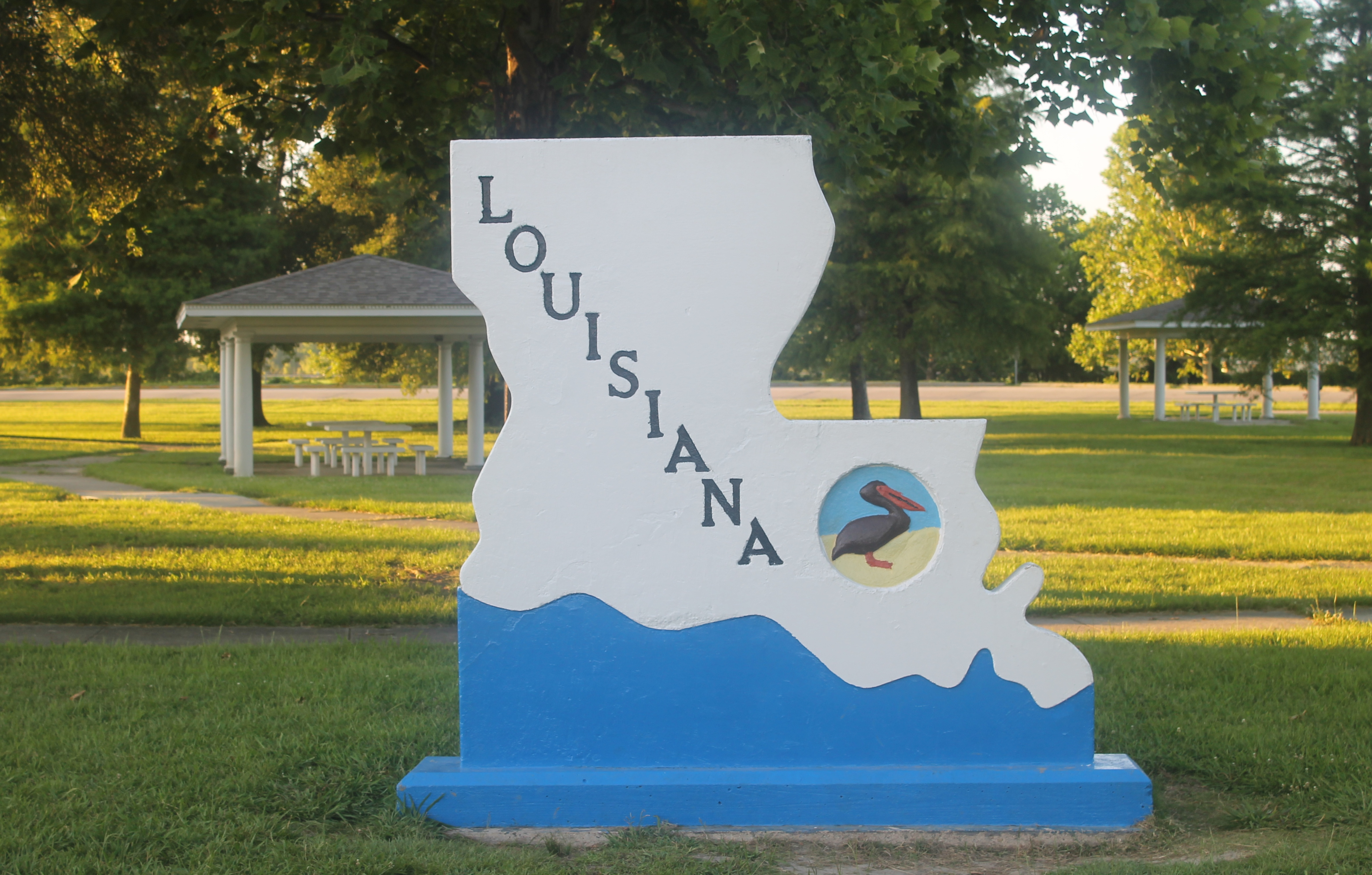 Louisiana sign at Madison Parish visitor center east of Tallulah, LA